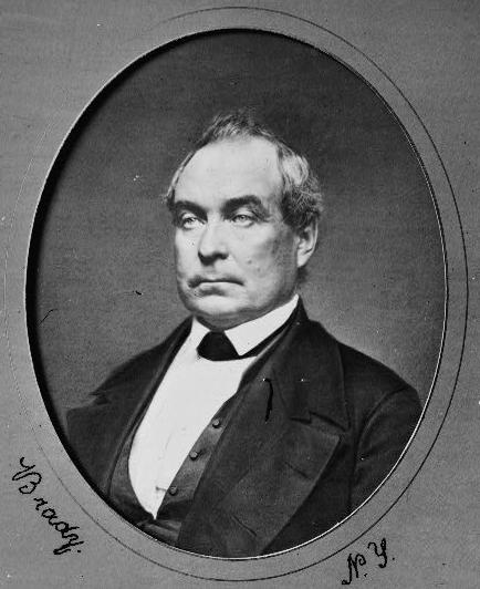 Silas Wright of New York